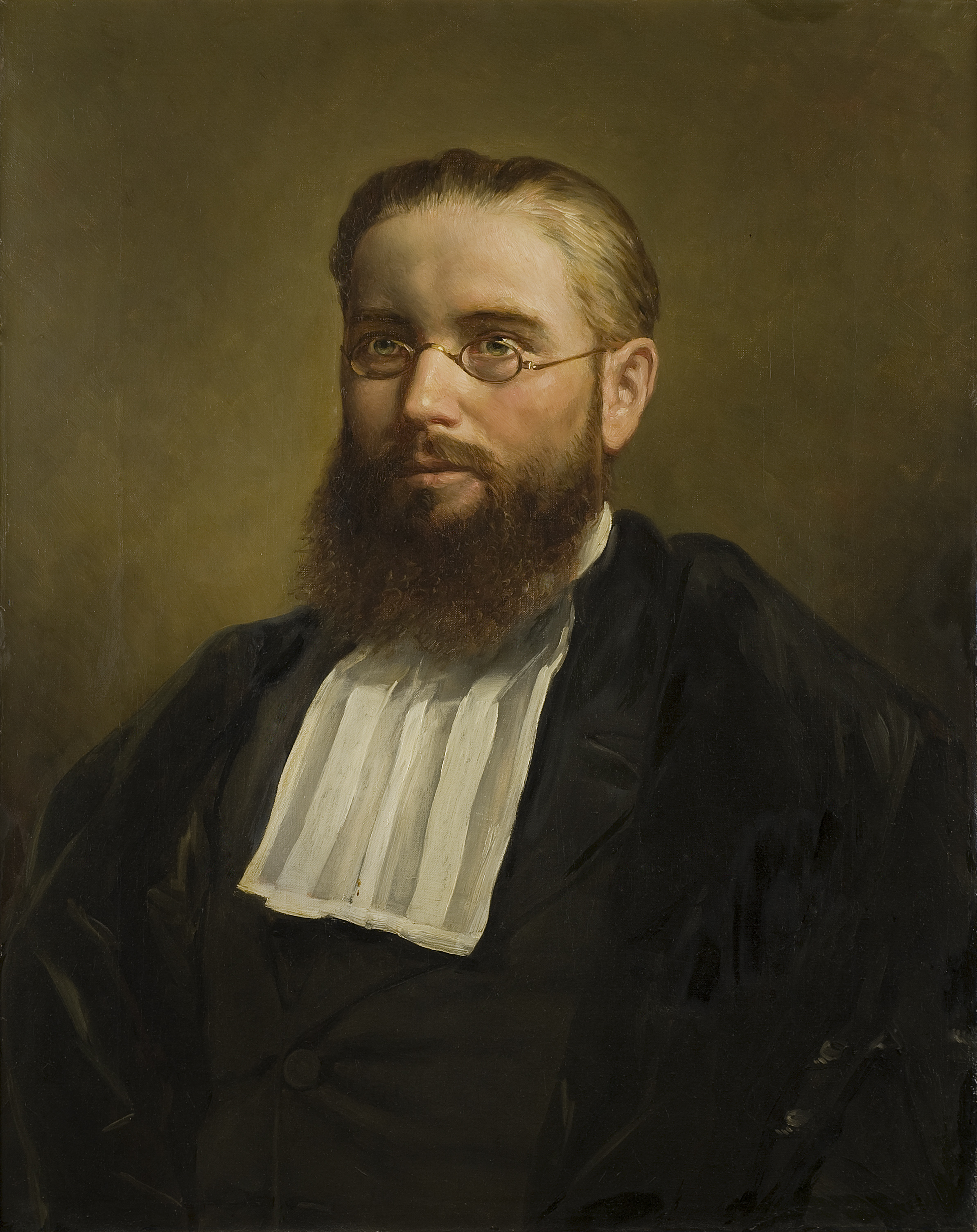 Johann (Hans) Friedrich Karl Rudolph Ranke (1849-1887) German physician